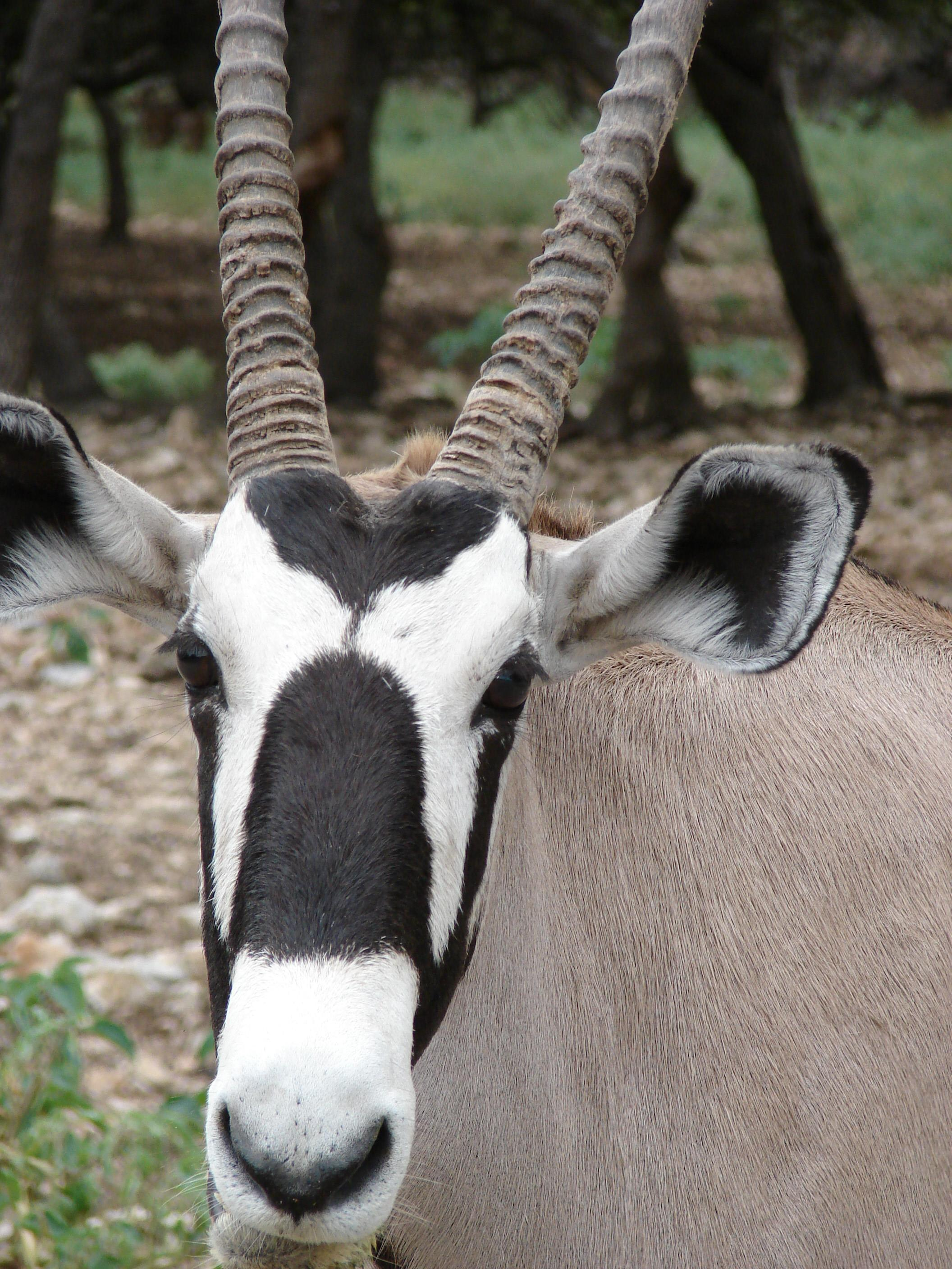 Photo taken by me in July, 2004.